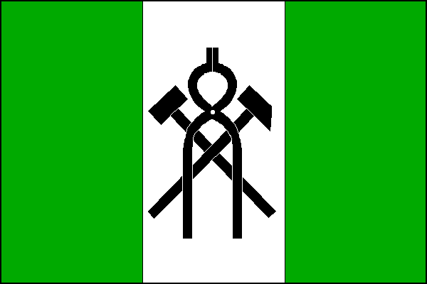 Flag of Holoubkov municipality, Rokycany District, Pilsen Region, Czech Republic.